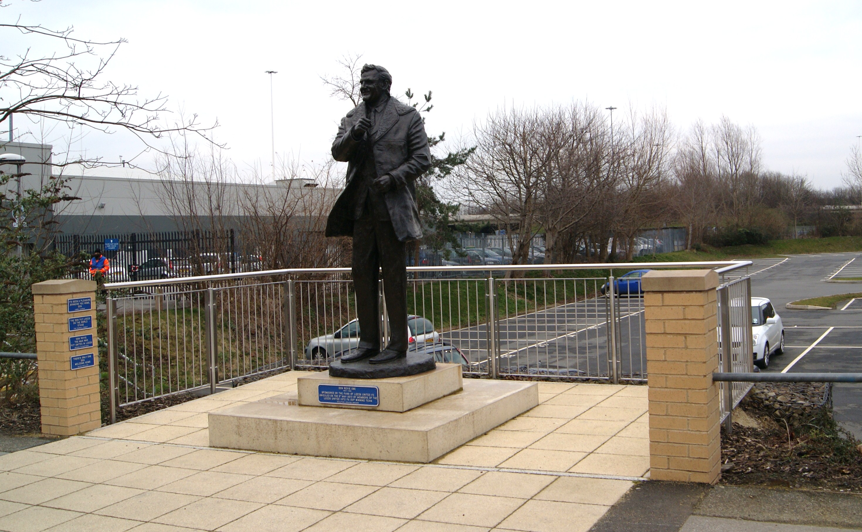 A statue of the late Leeds United manager Don Revie which was unveiled in 2012. The statue sits opposite the East Stand. Taken on the evening of Wednesday the 20th of February 2013